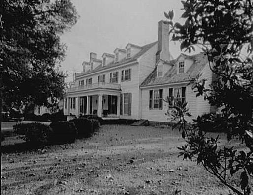 John Tyler, Sherwood Forest, residence in Virginia. Exterior.